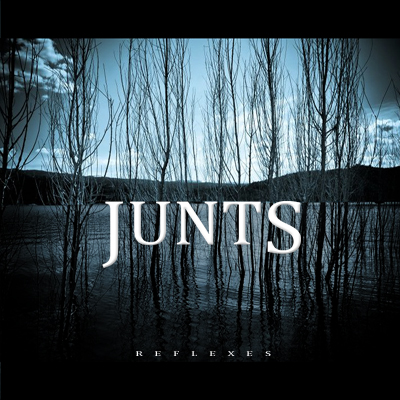 portada reflexes